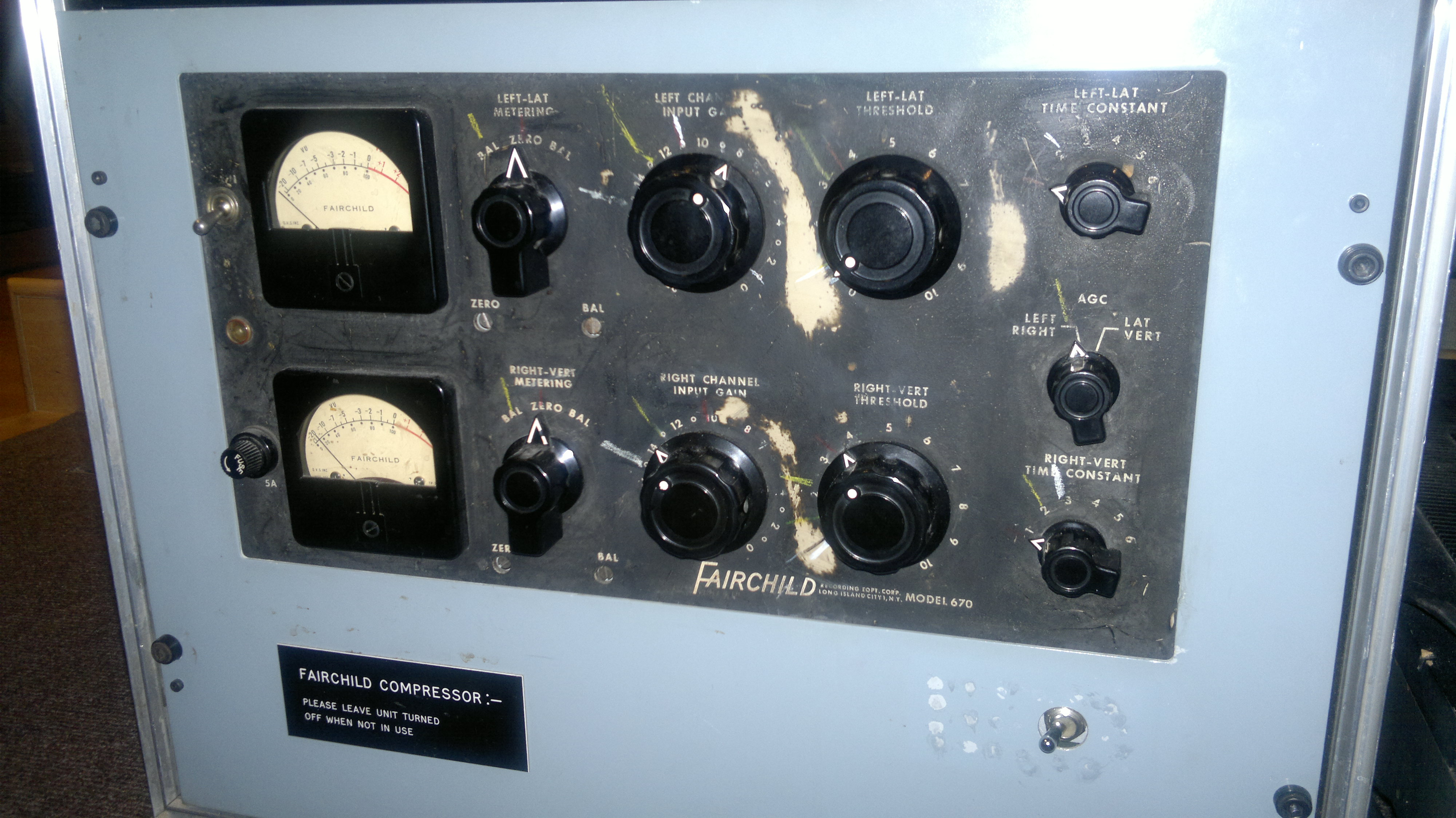 Fairchild 670 Stereo Compressor / Limiter (designed by Rein Narma) exhibited at Nokia Loop Workshop